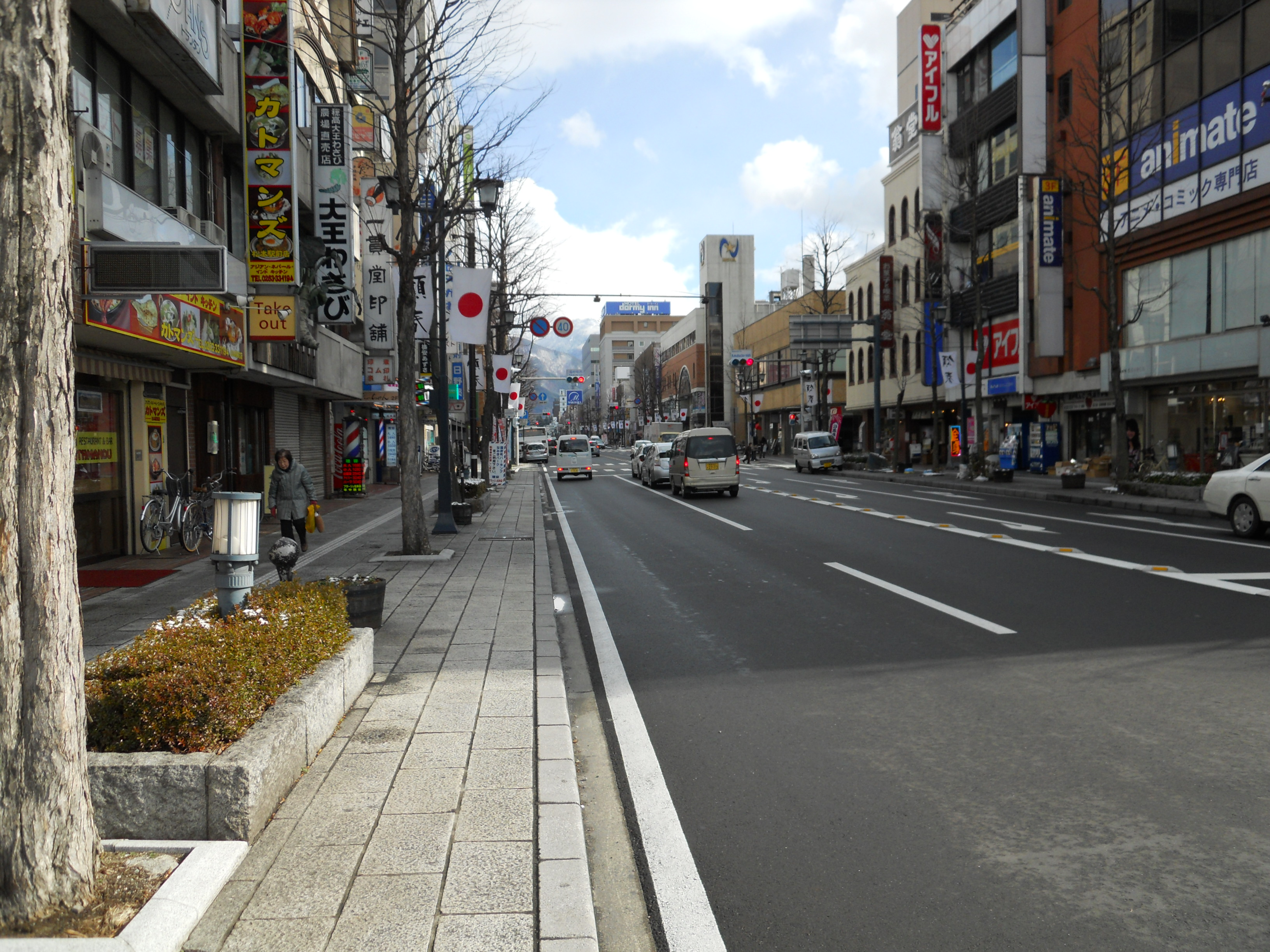 The National Route 143 and the Nagano Prefectural Road Route 23 near the Matsumoto-ekimae Intersection in Matsumoto City